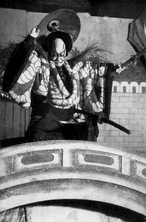 Komazō Ichikawa VII (1833–1874) as Watō Nai in Kokusen-ya Kassenn Act II "Senri-ga-Take"